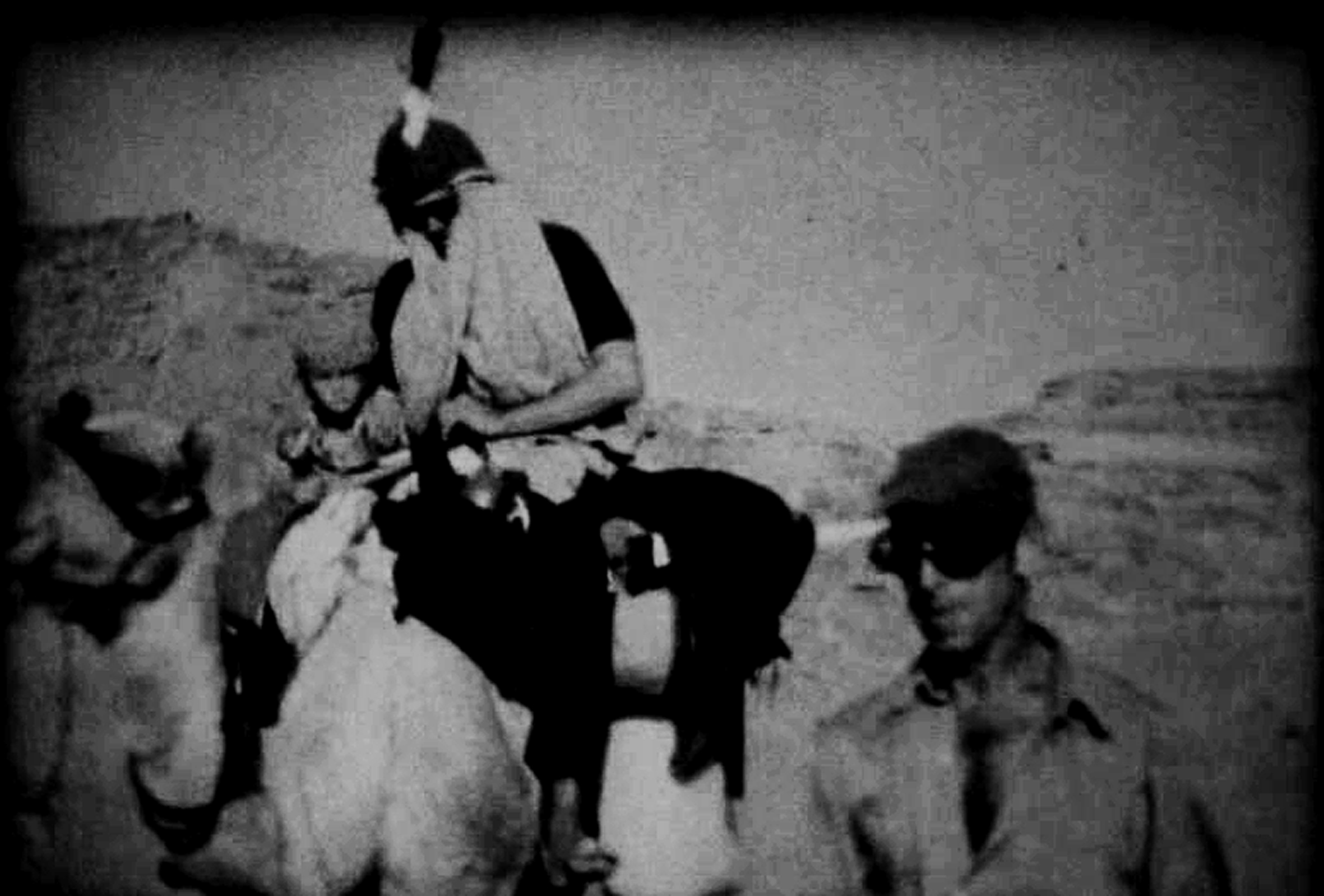 Sinai Crossing, filmstill 2007